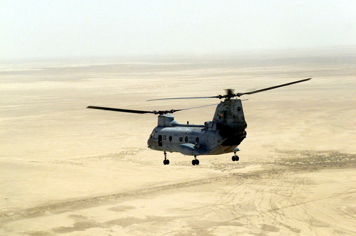 A US Marine Corps (USMC) CH-46E Sea Knight from Marine Medium Helicopter Squadron 364 (HMM 364), Purple Foxes, flies over Iraq during Operation IRAQI FREEDOM. Operation IRAQI FREEDOM is the multinational coalition to liberate the Iraqi people, eliminate Iraq's weapons of mass destruction and end the regime of Saddam Hussein.